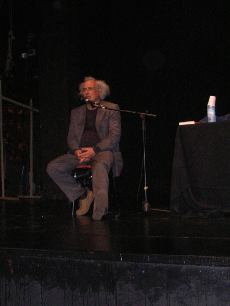 Stefano Benni - Italian satirical writer and journalist.